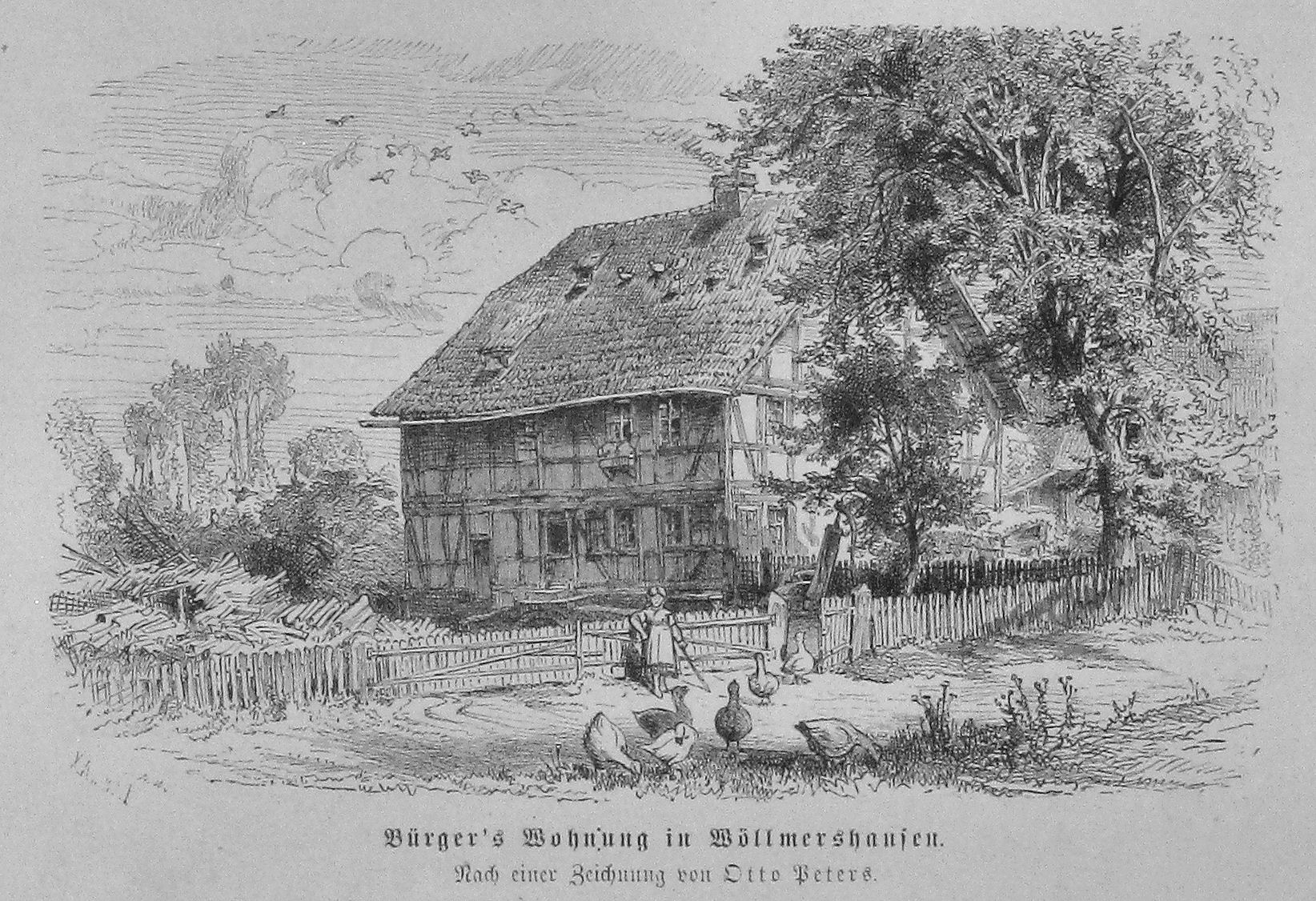 caption: "Bürger‘s Wohnung in Wölmershausen. Nach einer Zeichnung von Otto Peters."